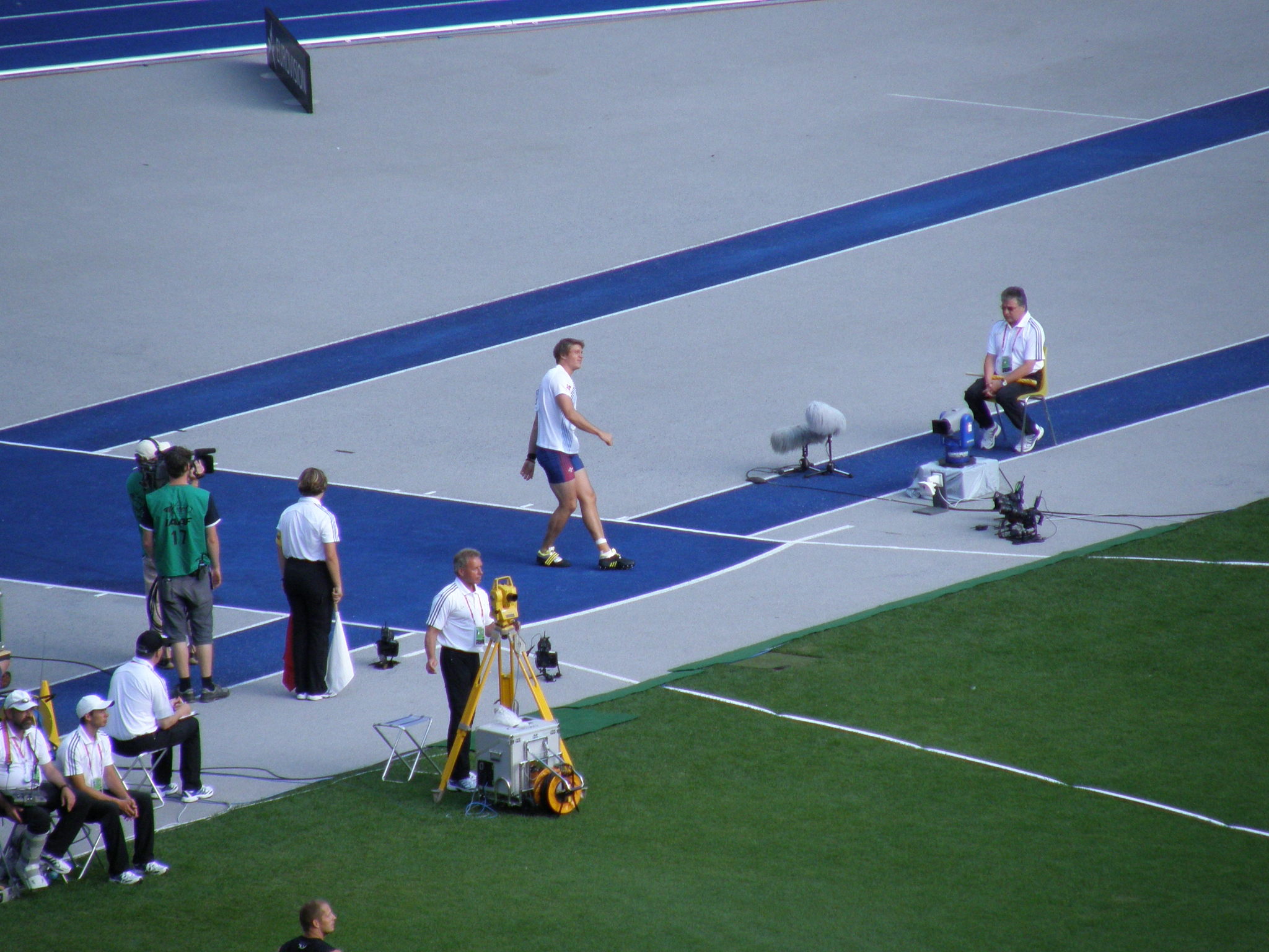 Andreas Thorkildsen - 2009 IAAF World Championships in Athletics